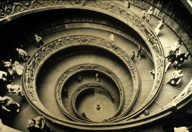 black and white photograph as an orotone print by Sally Larsen